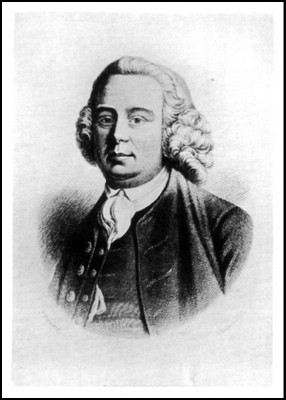 (PD by age)